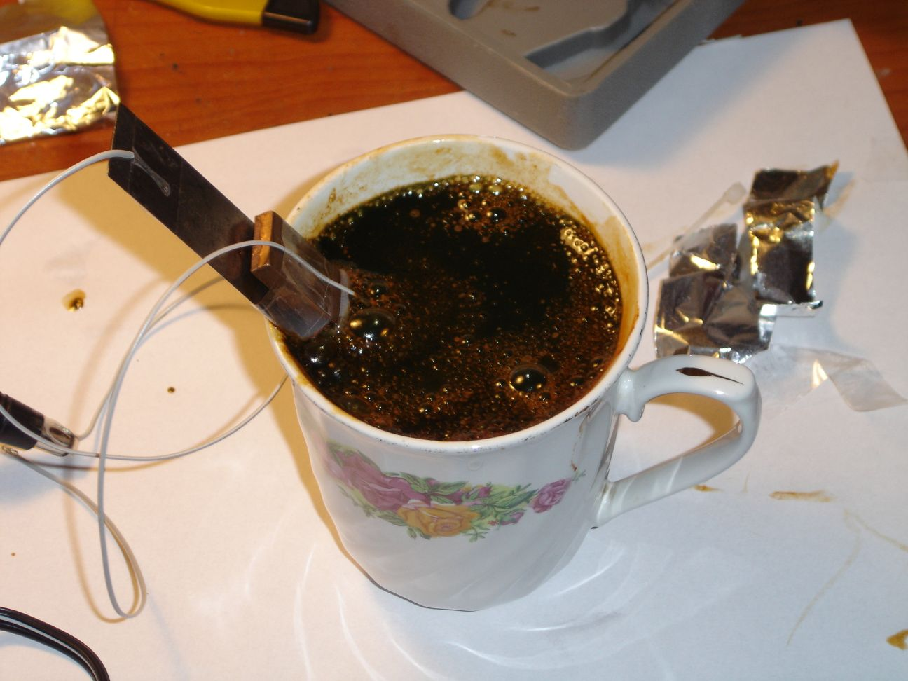 Buzała in action, a water heating device improvised by attaching two razor blades separated by matches and wires to the mains